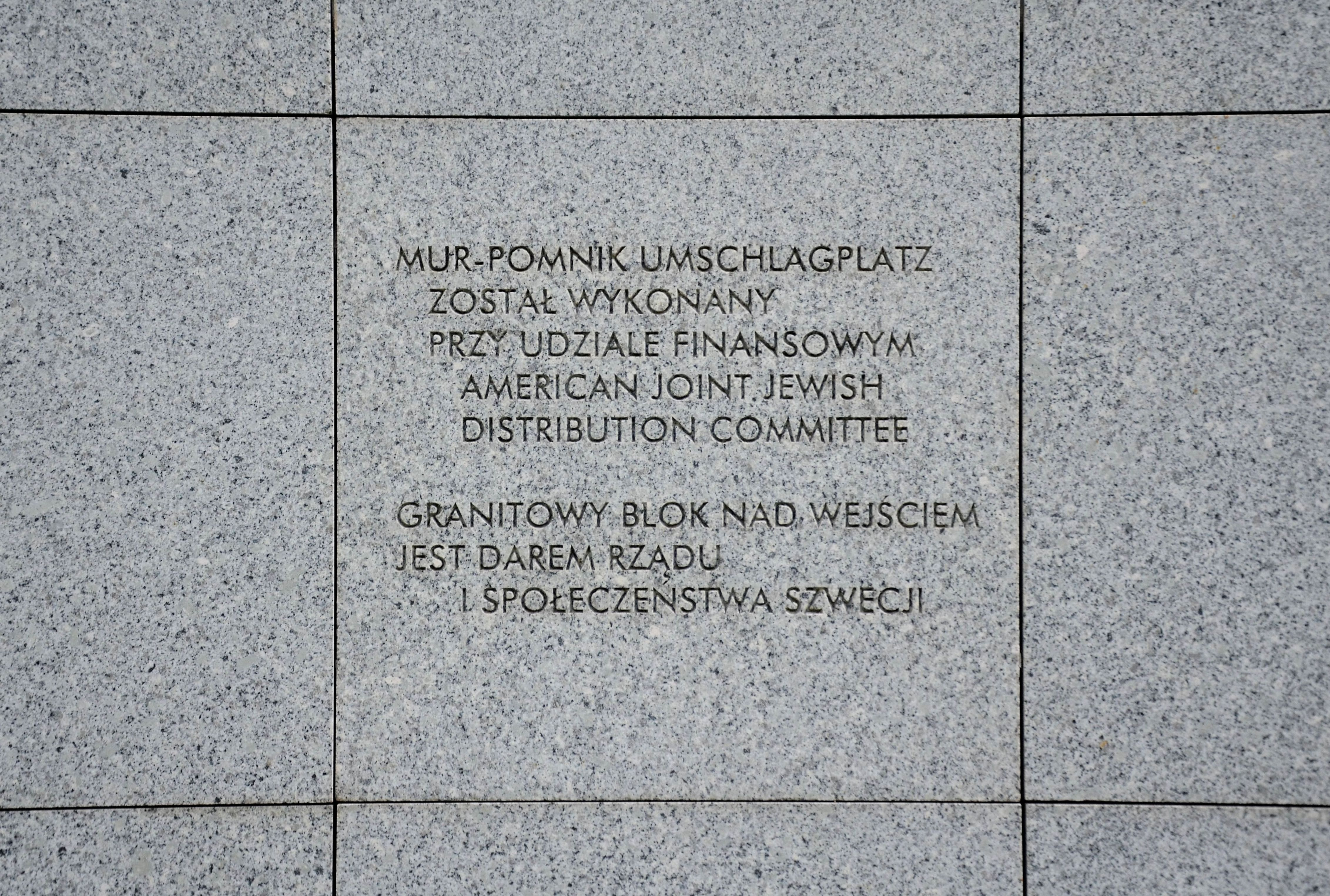 Inscription on the back wall of Umschlagplatz Monument in Warsaw